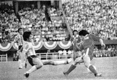 President Cup (then "Korea Cup"). Racing de Cordoba vs. Japan national team at Seoul, Korea.